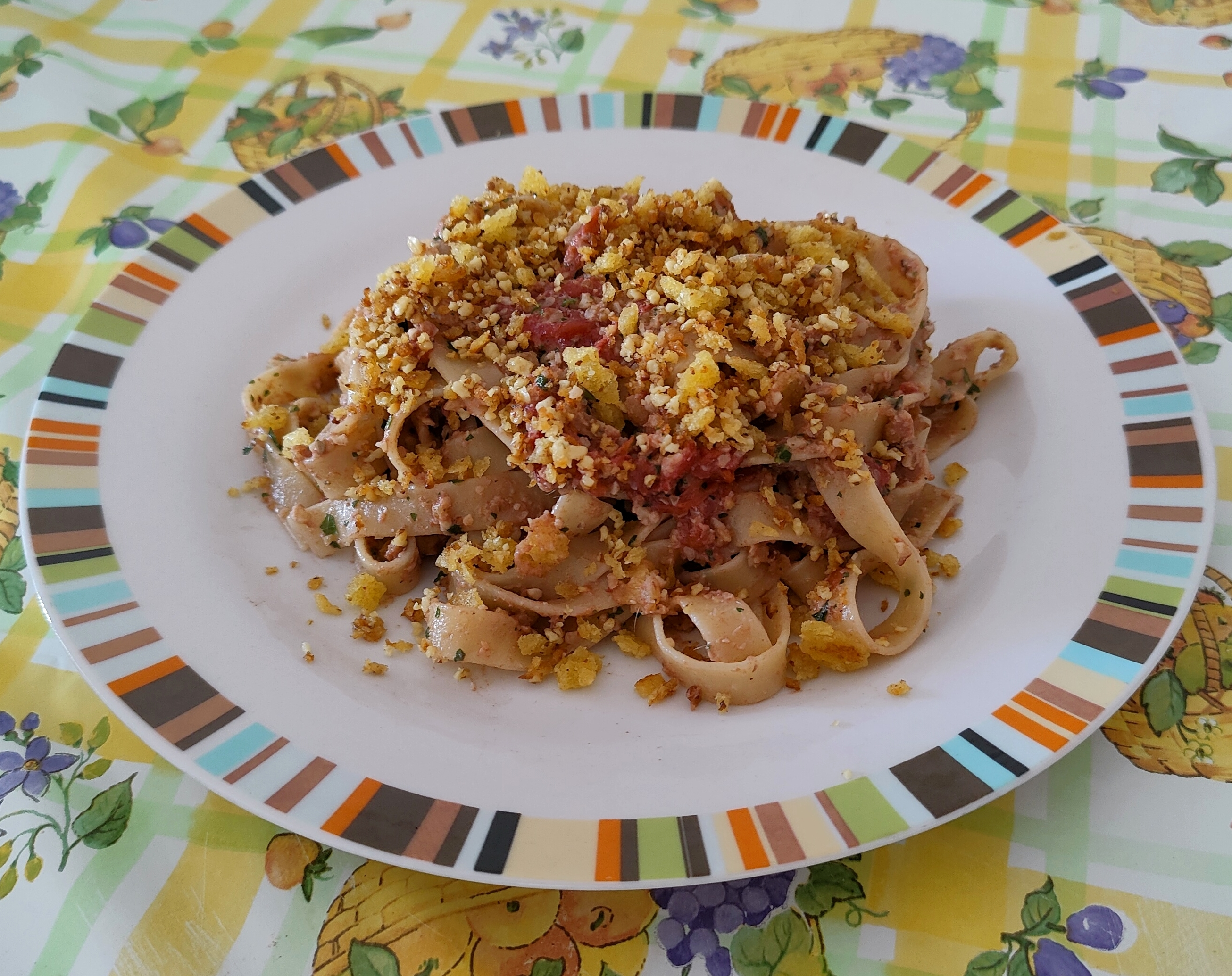 Tumact me tulez, traditional dish from Barile, Basilicata